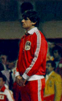 74 kg freestyle podium at the 1976 Olympics, Stanley Dziedzic